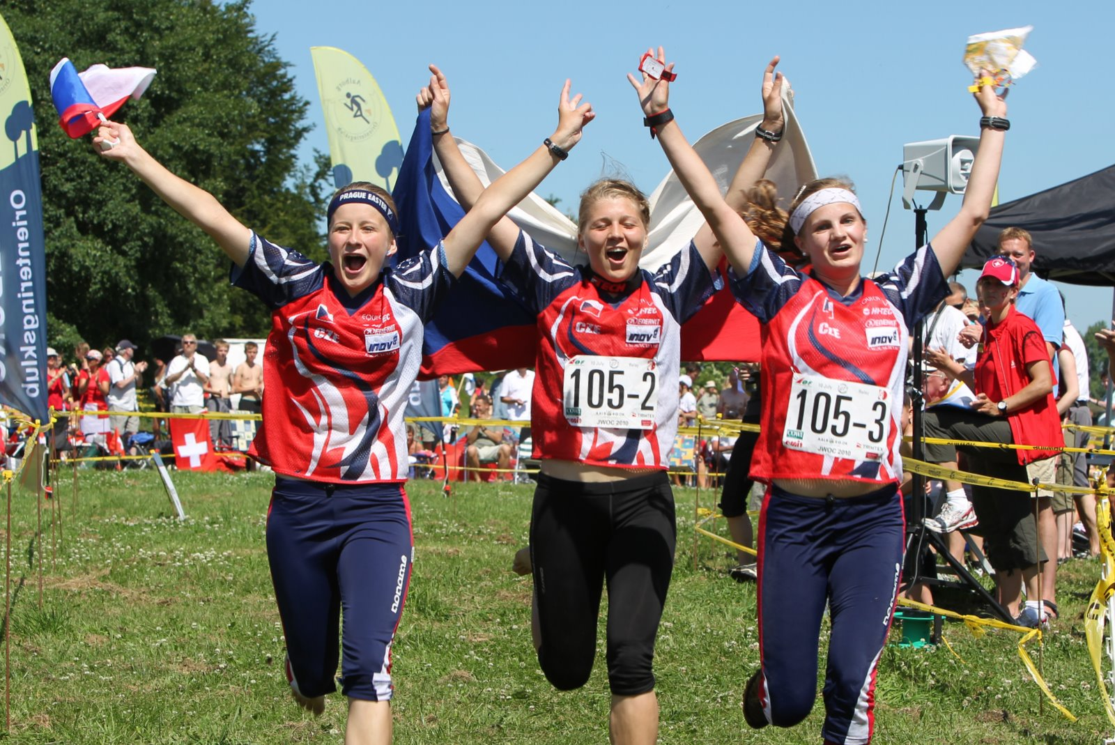 Czech Relay silver medal at JWOC 2010